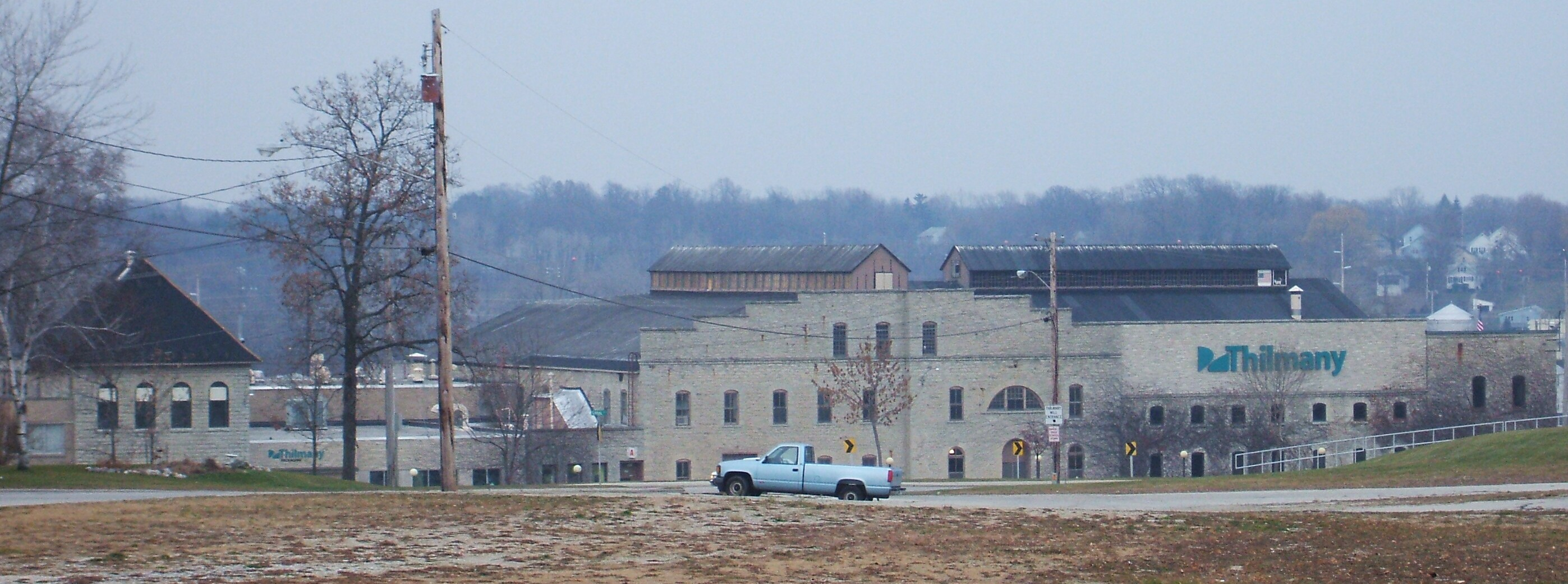 The Thilmany plant in Kaukauna, Wisconsin. Taken by myself on November 25, 2006.